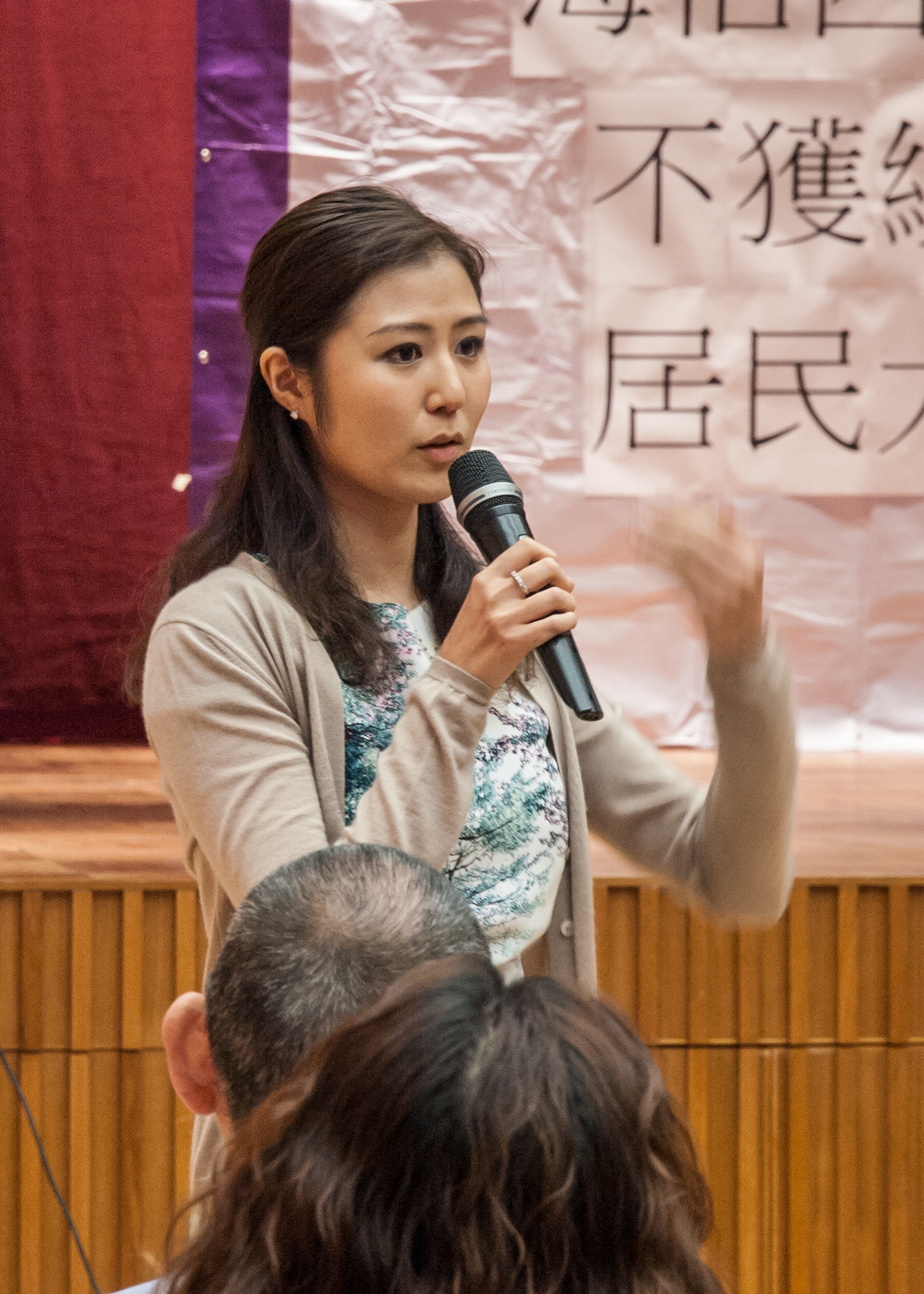 Erica Yuen giving a speech at a town hall meeting in South Horizons Community Hall, Hong Kong